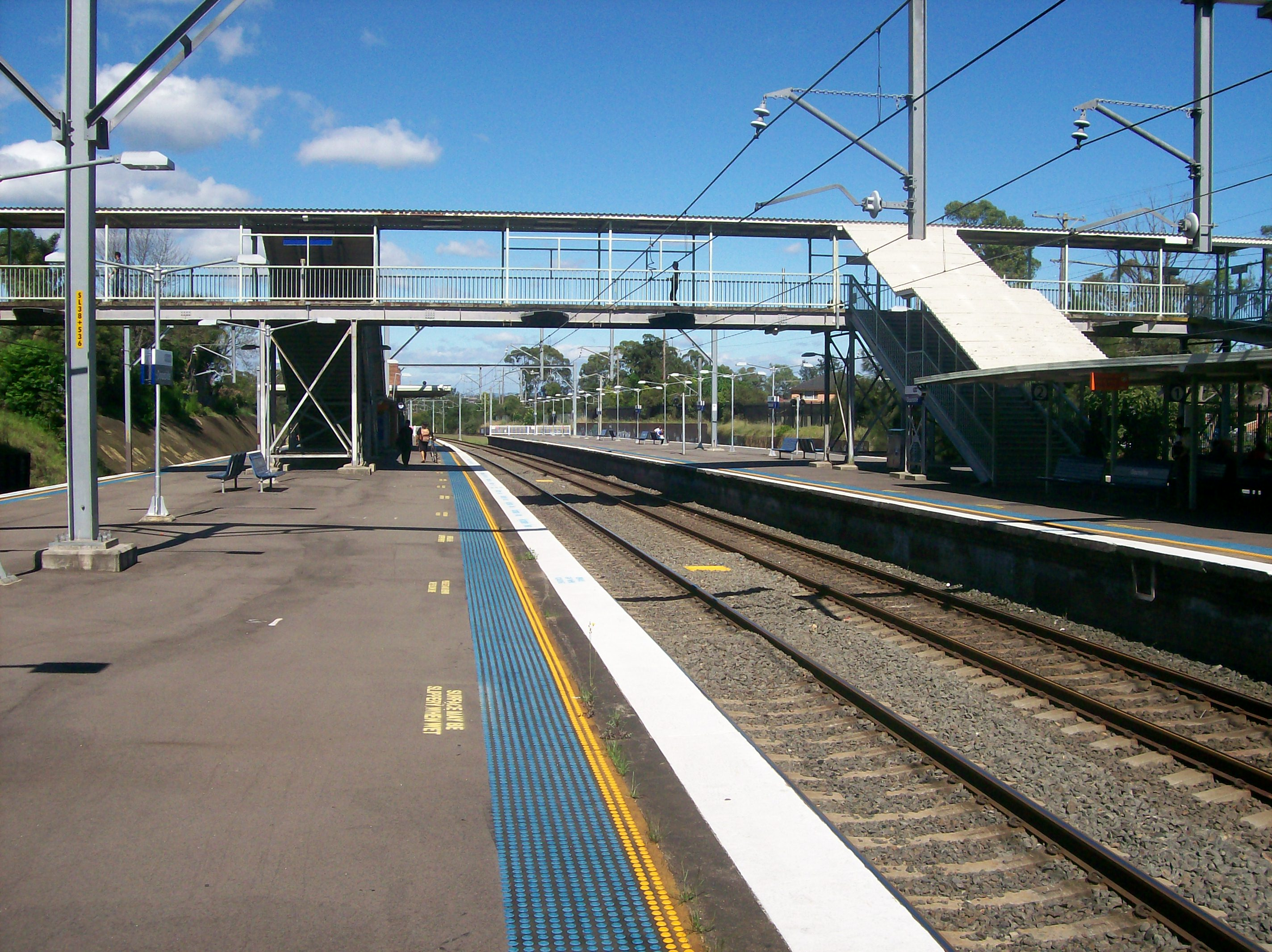 Doonside railway station